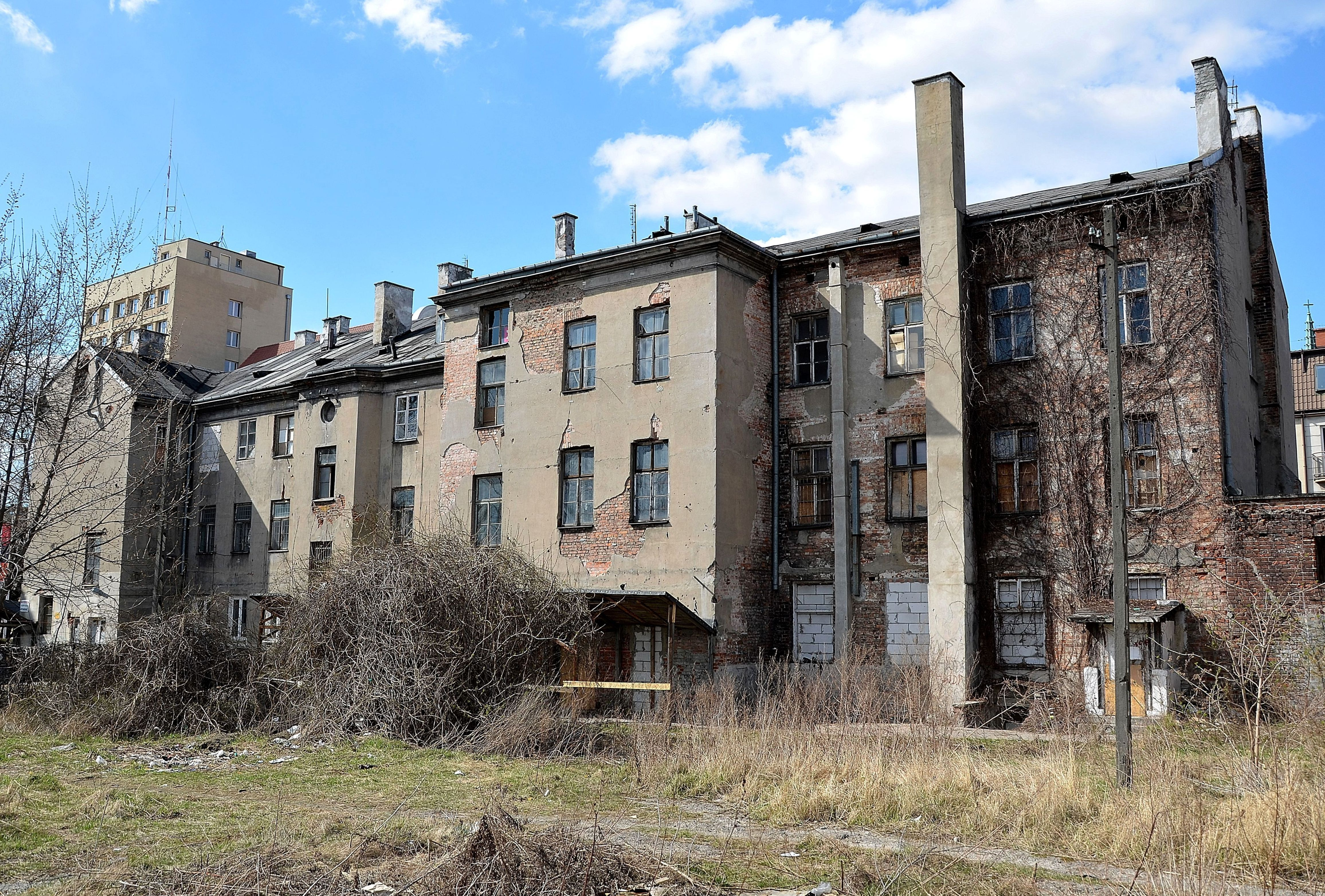 Karol Minter Tenement House in Warsaw, view from the backyard (listed in the Register of Historic Monuments on 14.02.2011, reference no. 137/11)